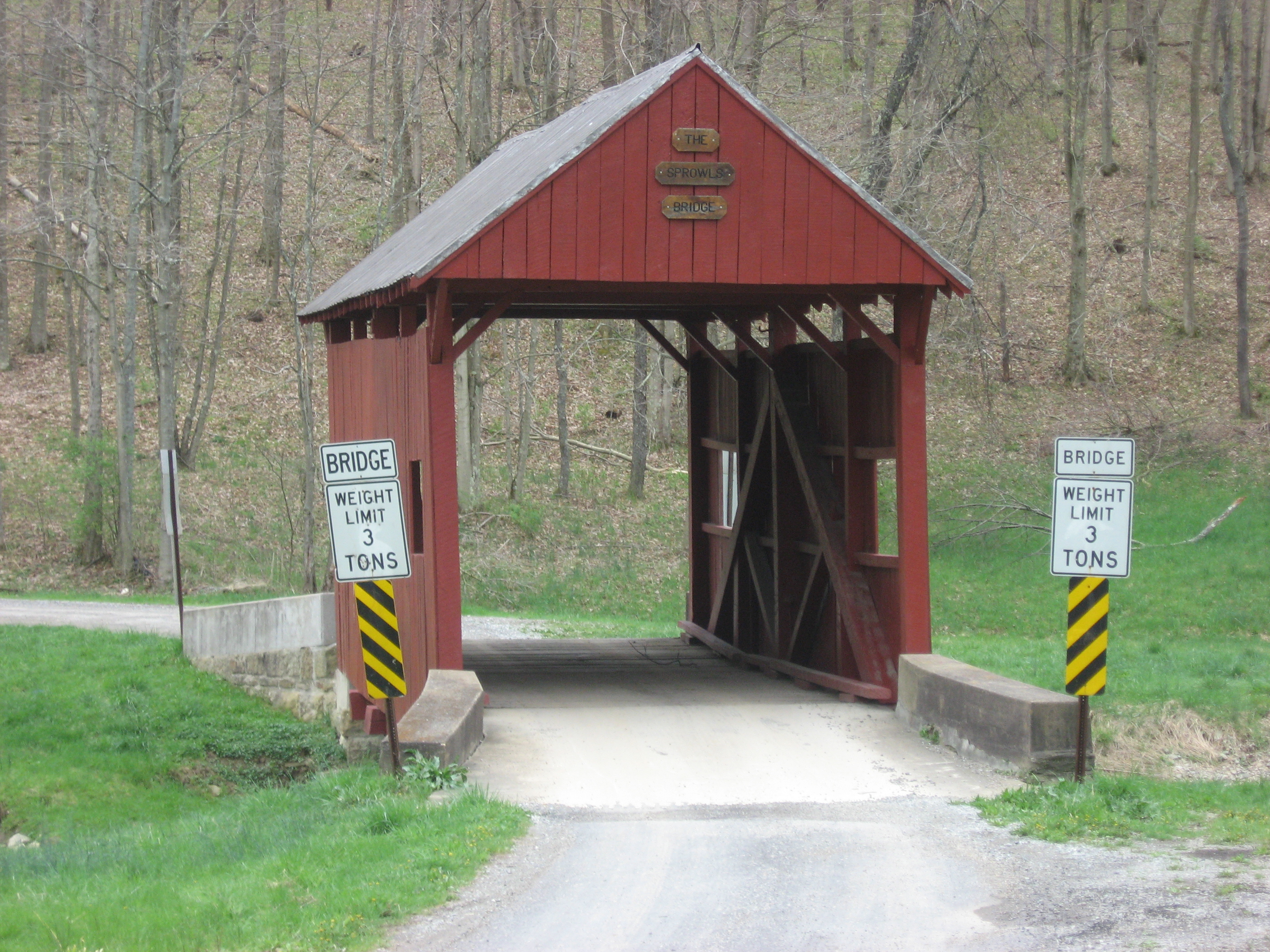 Northwestern portal of Sprowls Covered Bridge, which carries Newland School Road over Rocky Run in East Finley Township, Washington County, Pennsylvania, United States. Built in 1875, the bridge is listed on the National Register of Historic Places.